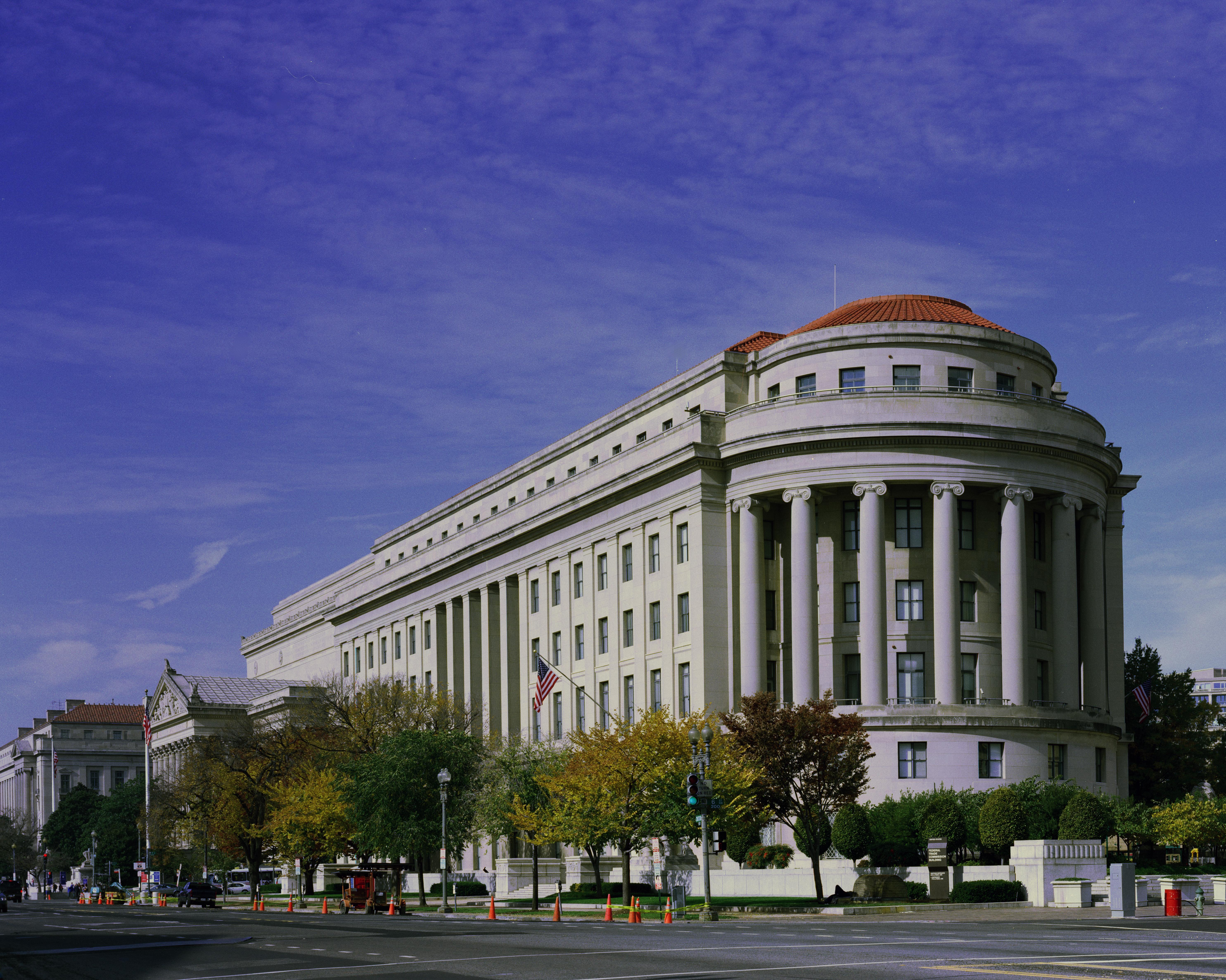 The Apex Building, headquarters of the Federal Trade Commission, on Constitution Avenue and 7th Streets in Washington, D.C.. The building was designed by Edward H. Bennett under the purview of Secretary of the Treasury Andrew W. Mellon, and was completed in 1938 at a cost of $125 million.